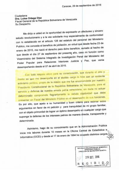 Solicitud de jubilación de Katherine Haringthon